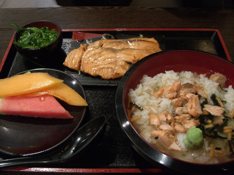 Grilled Salmon and Ocazuke Set - Ajisen Melbourne. Fresh salmon, nicely grilled. Not bad for AUD14.